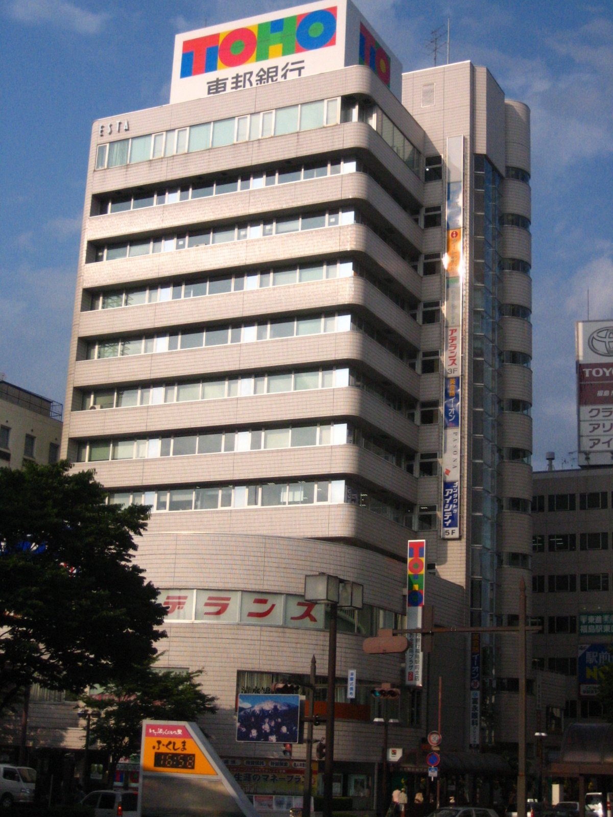 A Toho Bank branch in downtown Fukushima City, Japan. ATMs and offices are located on the first floor, not throughout the entire building. Picture was taken with a Canon Power Shot SD450 Digital Elph camera and modified using a Paint Shop program on a laptop computer.